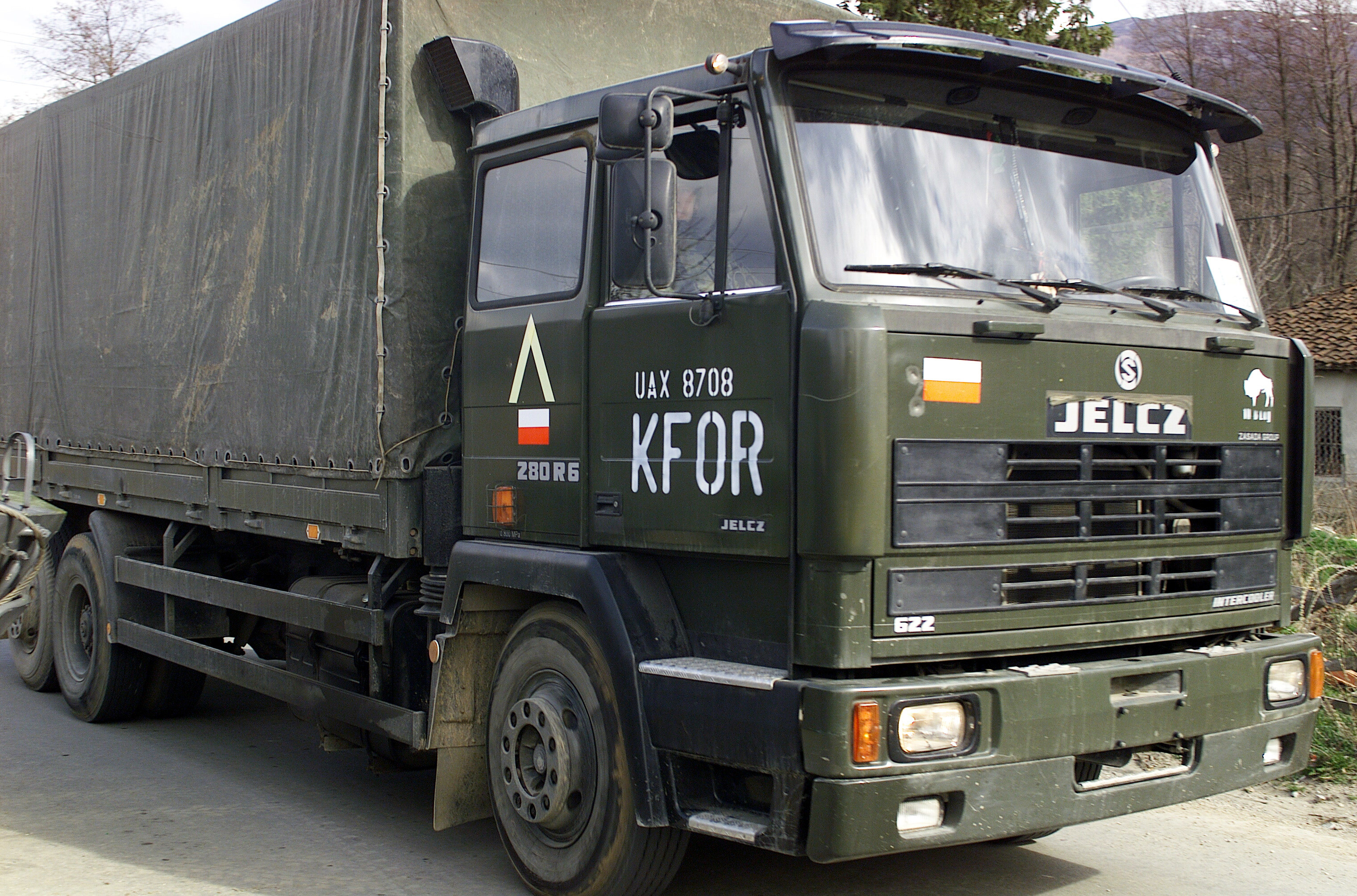 Six trucks from the Polish-Ukrainian Battalion (Polukrbat) transport food through Ukrainian observation point in Drajkovce, Kosovo, on March 21, 2001. This humanitarian aid is for the Serbian people of Strpce, Kosovo, from the German Red Cross.